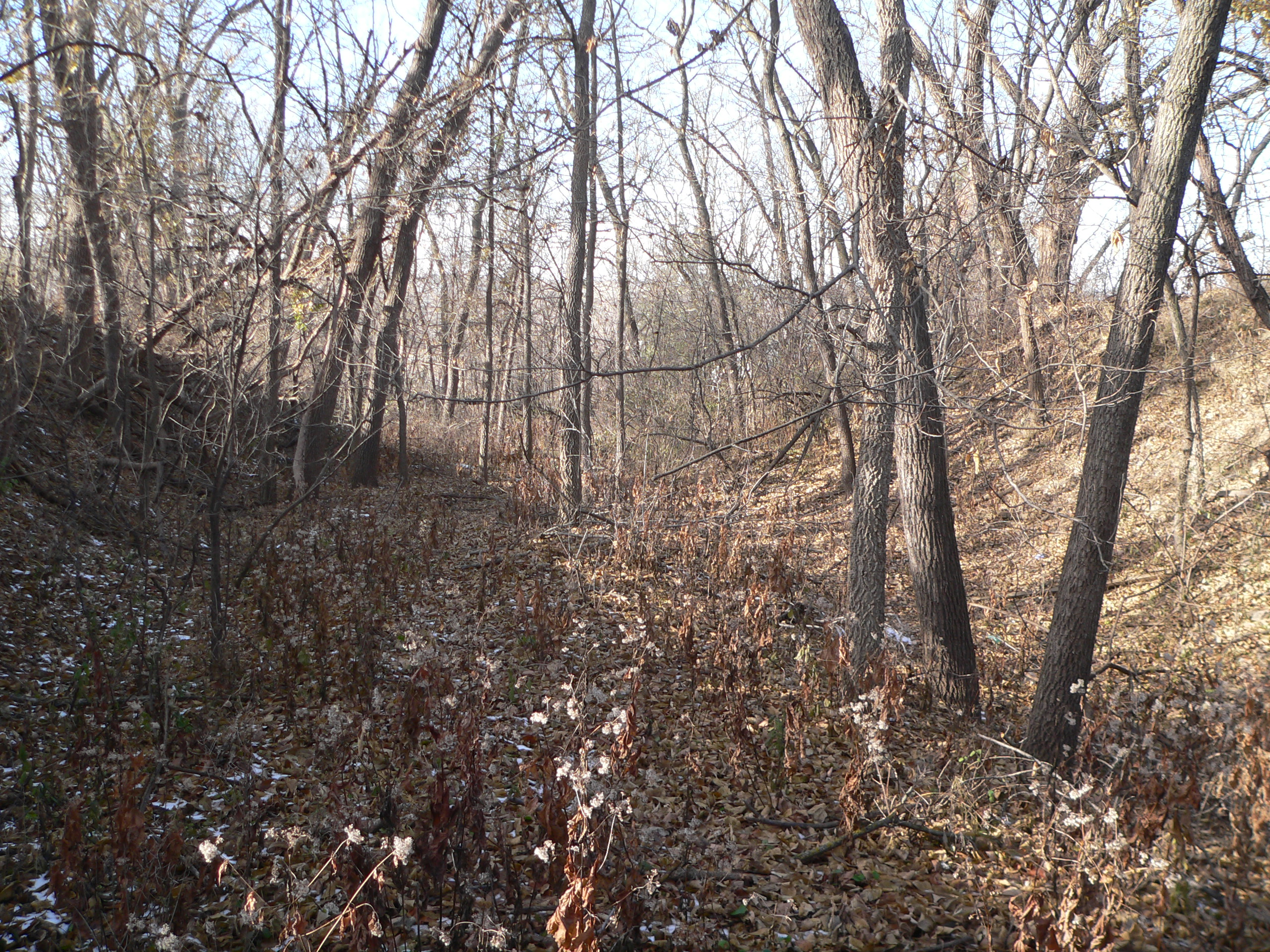 Segment of Military Road wagon track in Omaha, Nebraska. This segment runs west-northwest down a slope, parallel to and just south of the current Military Road, from an Omaha Public Power District substation at 82nd and Fort toward Little Papillion Creek. Camera is facing west-northwest (downslope). The slopes on either side of the photo are spoil piles from the road's excavation.